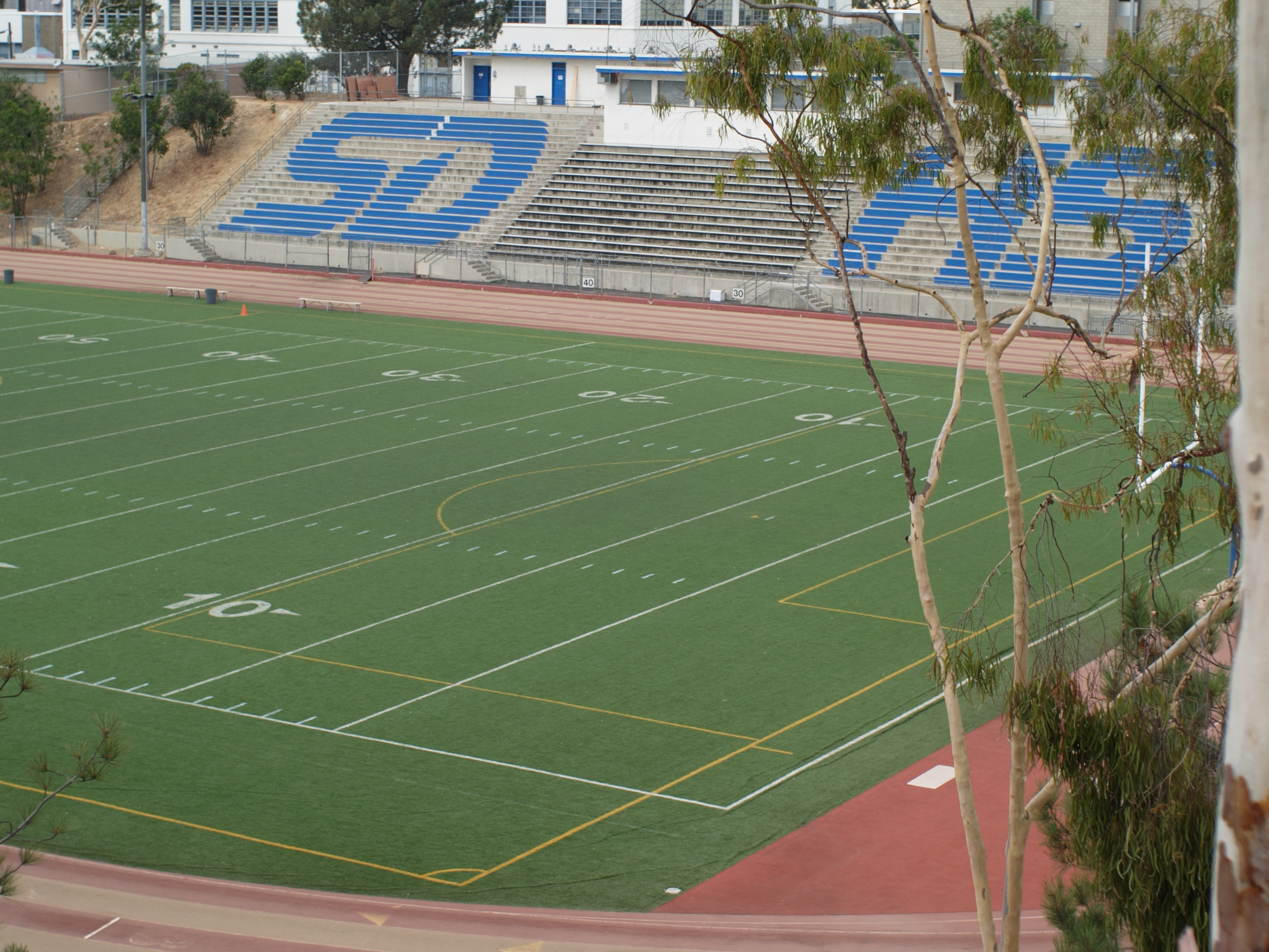 The former home of the Chargers (the seating has been mostly removed since then).